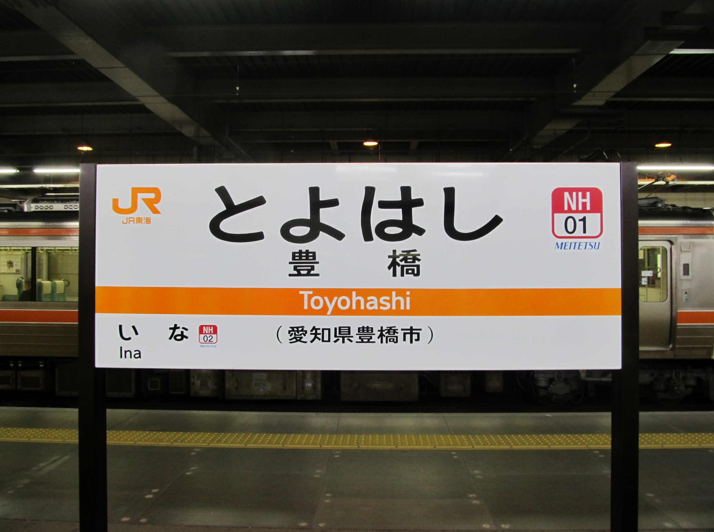 Central Japan Railway / Nagoya Railroad Naoya Main Line Toyohashi Station signboard